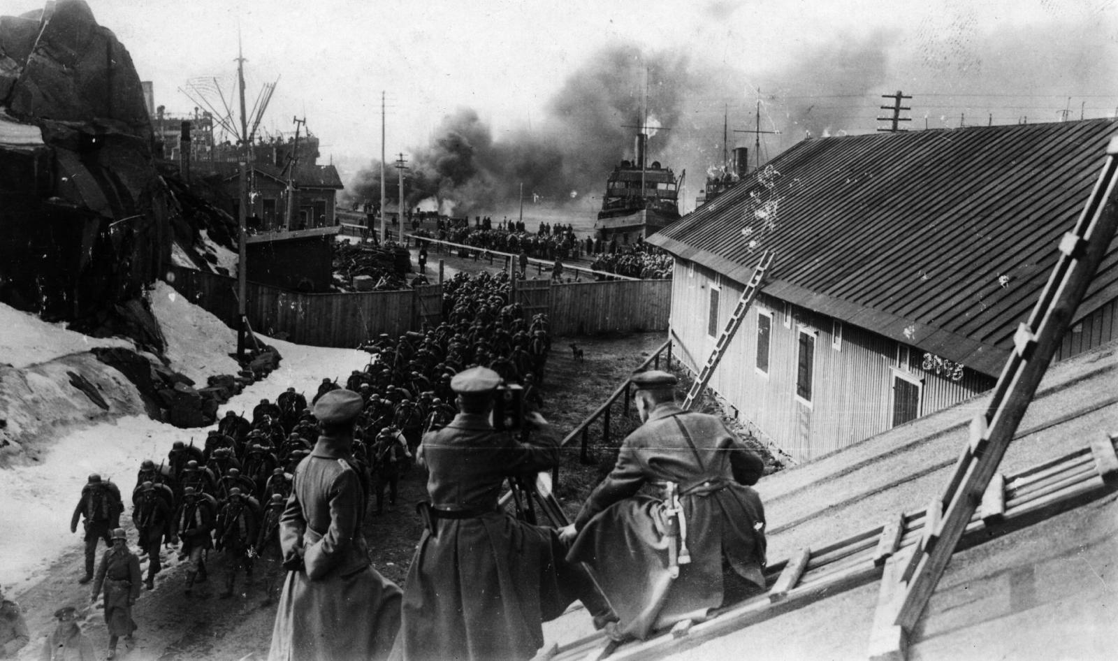 German Baltic Sea Division landing in Hanko, Finland, with Russian warships and submarines in fire.